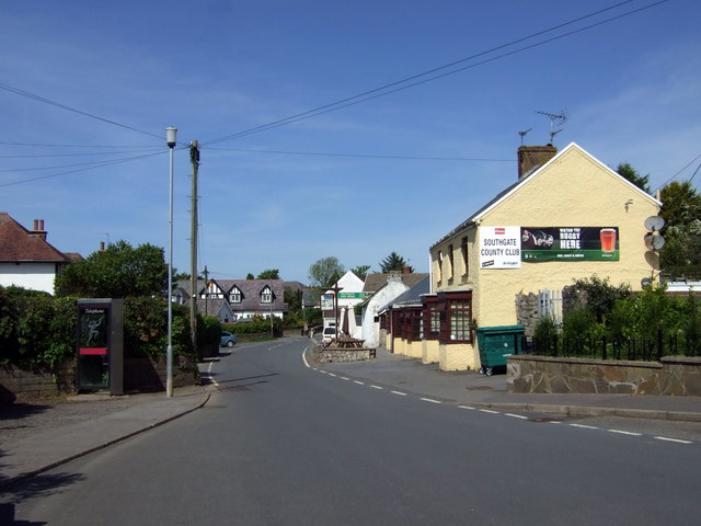 Southgate county club According to the county club's own description, it was formed for the benefit of local residents in the 1920s, there presumably being no pub in existence. At the time Southgate was a peaceful agricultural area but during the 1950s sailors and dockers from Swansea started to frequent the club which as a result became known as The Bucket of Blood. All seems quiet again now and the club promotes itself as a friendly family venue for locals and visitors.